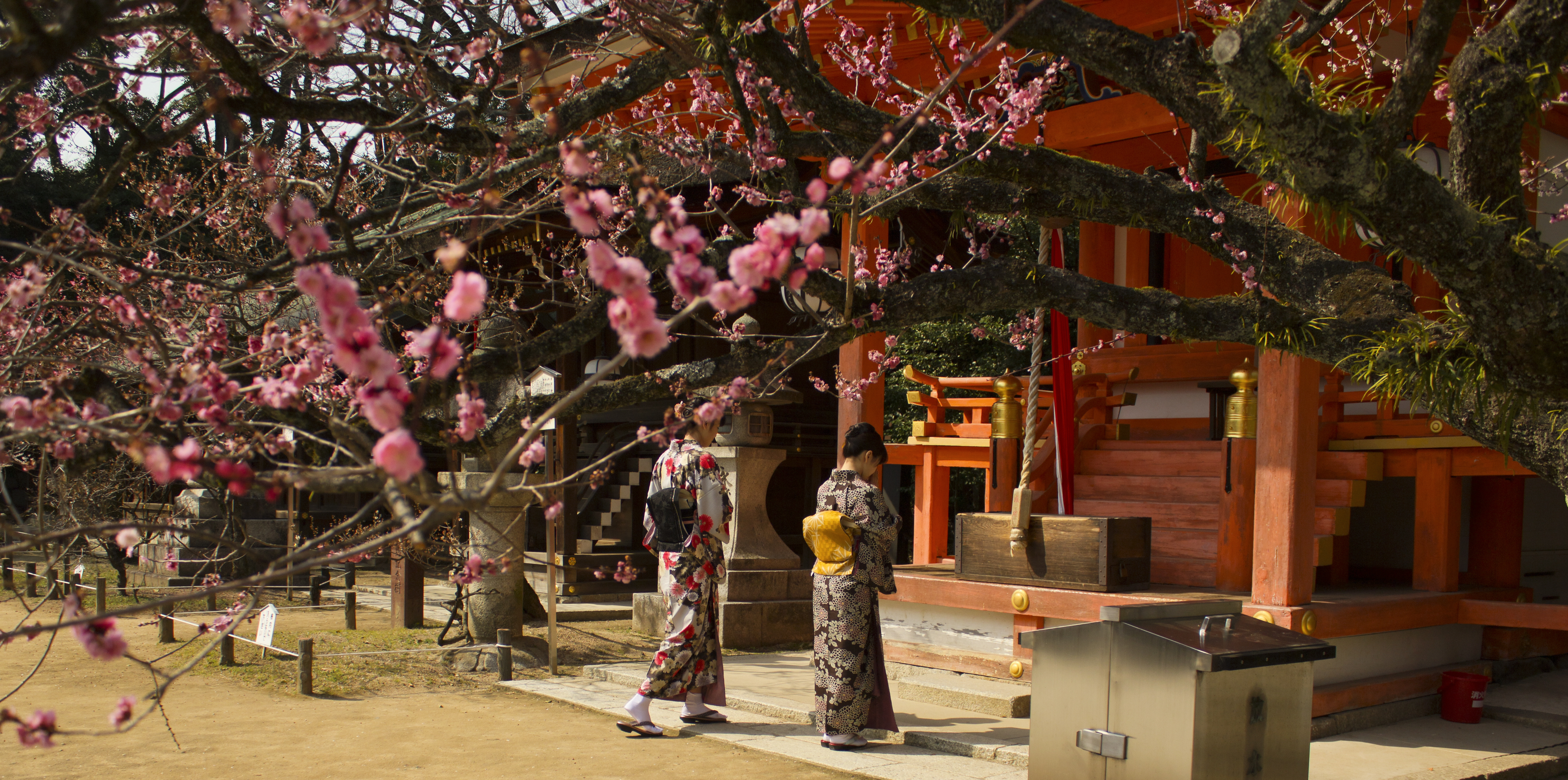 Blooming plum trees at the Kitano Tenmangu in Kyoto. Women in kimono praying.